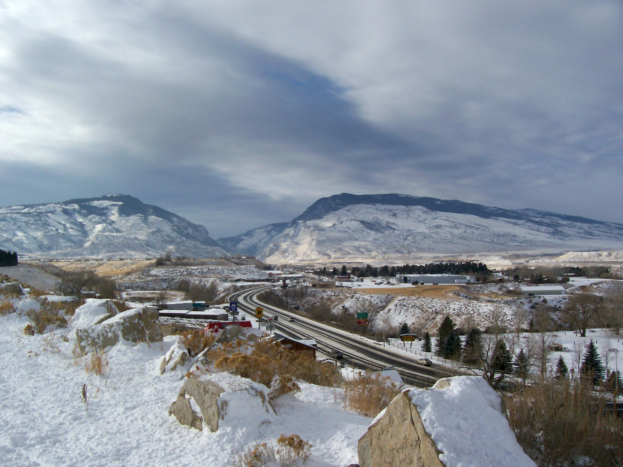 The city of Cody, Wyoming, USA